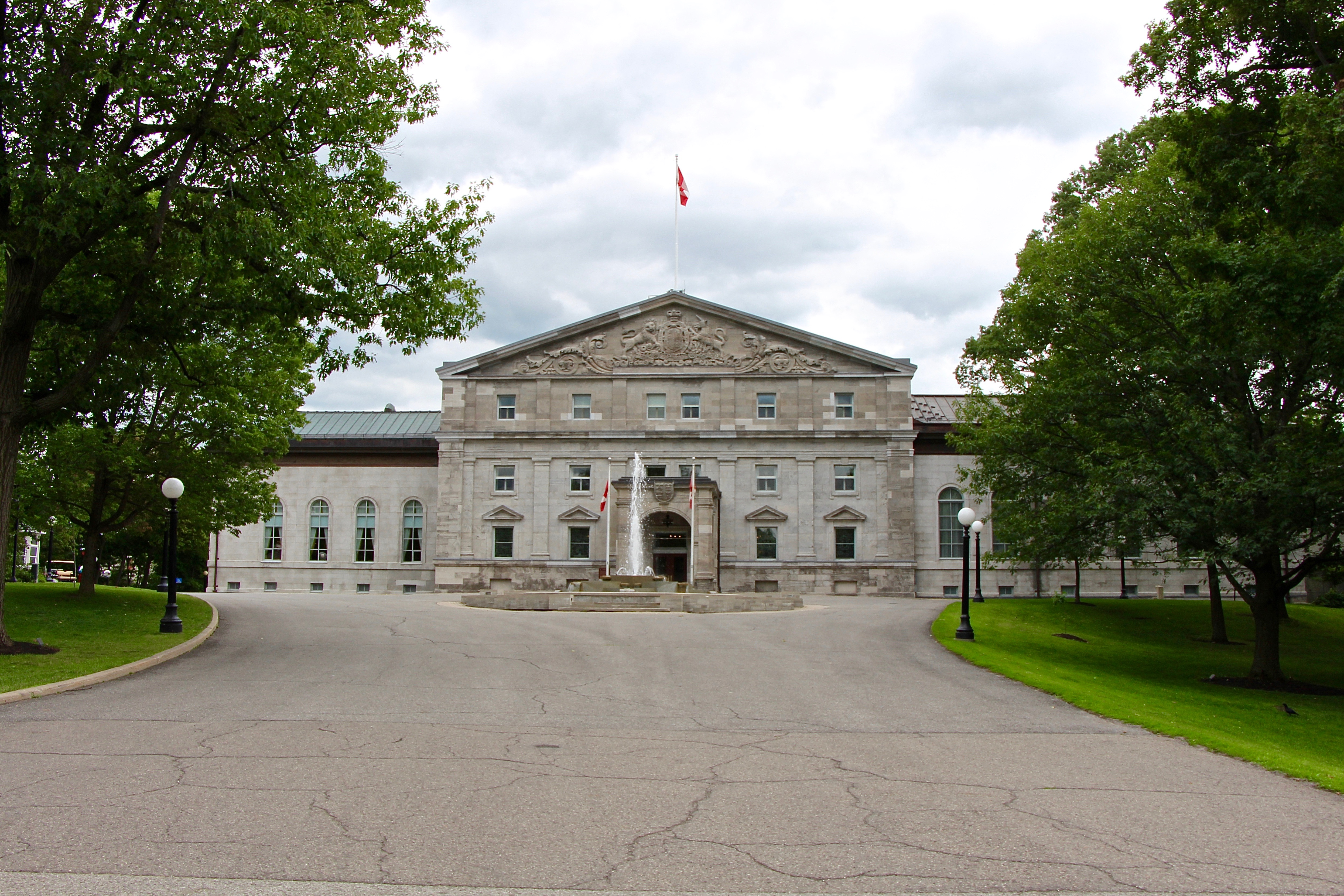 Rideau Hall, 1 Sussex Drive, Ottawa, ON K1A 0A1.